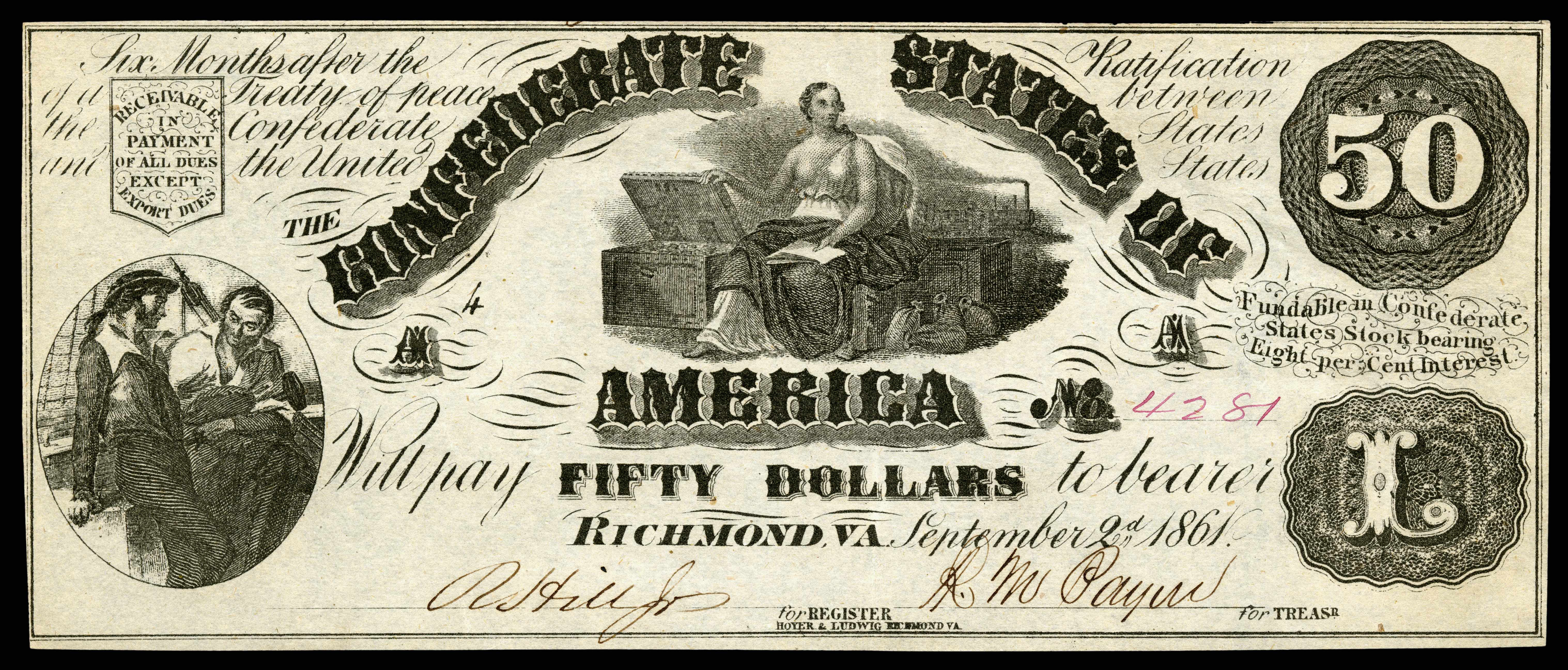 Third series $50 Confederate States of America banknote. Uniface. Vignettes of sailors, Moneta with treasure chest. Third series (Act of August 19, 1861 amended December 24, 1861), funded by 8% bonds, payable six months after a ratified peace treaty, total authorized circulation $150,000,000. Between 1861–64 there were 72 different types issued with numerous varieties.